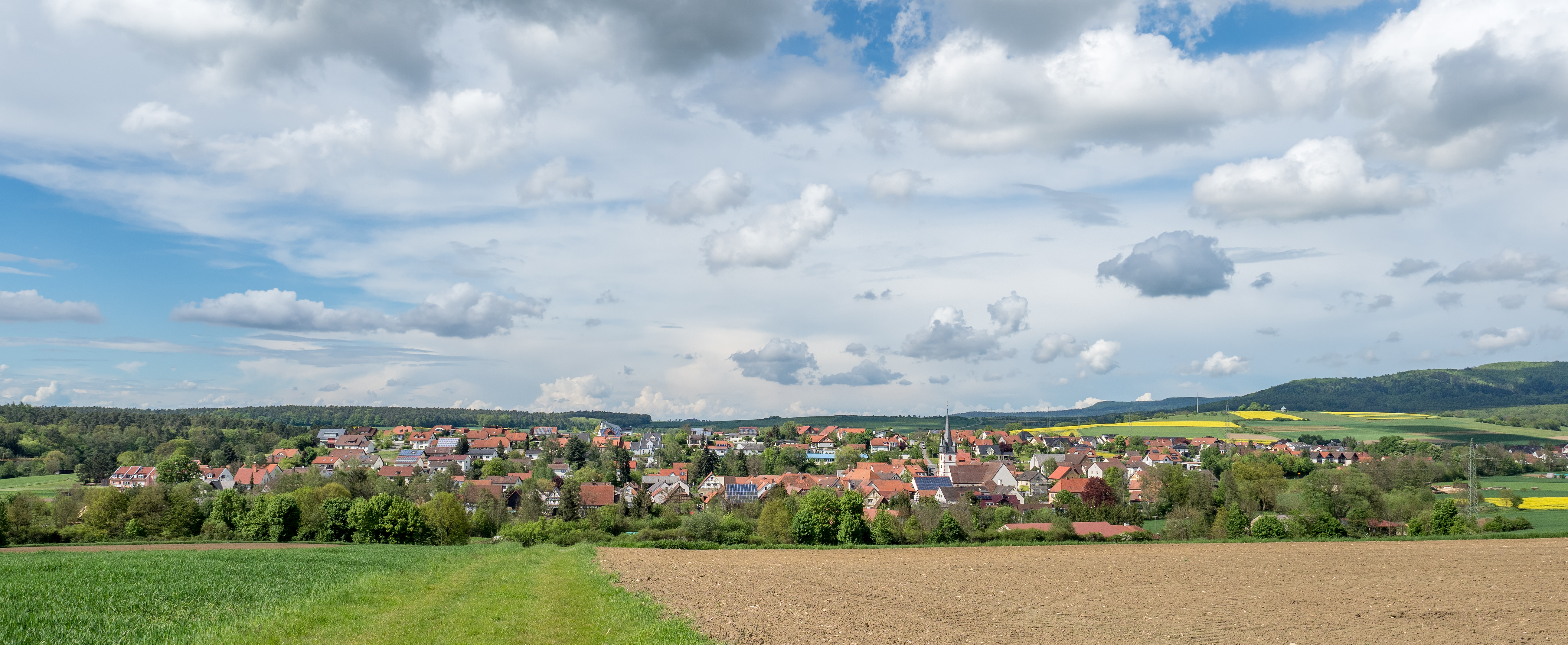 View at Amglingstadt from the south